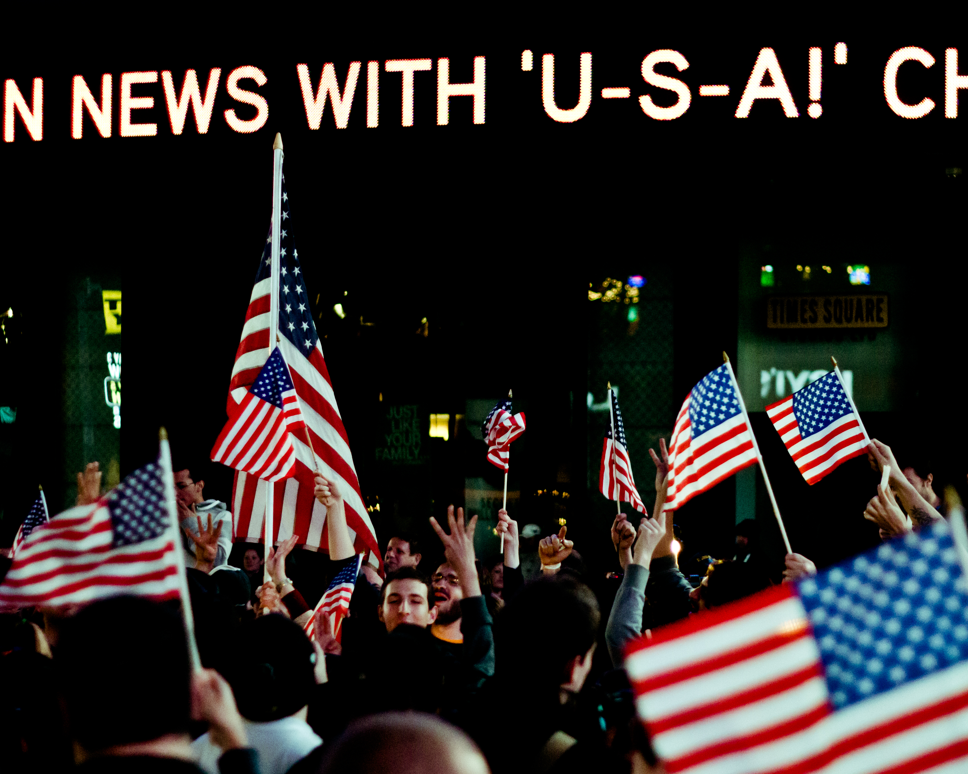 Chants of "Four more years!" as a crowd waves flags in Times Square on the night Osama bin Laden was killed